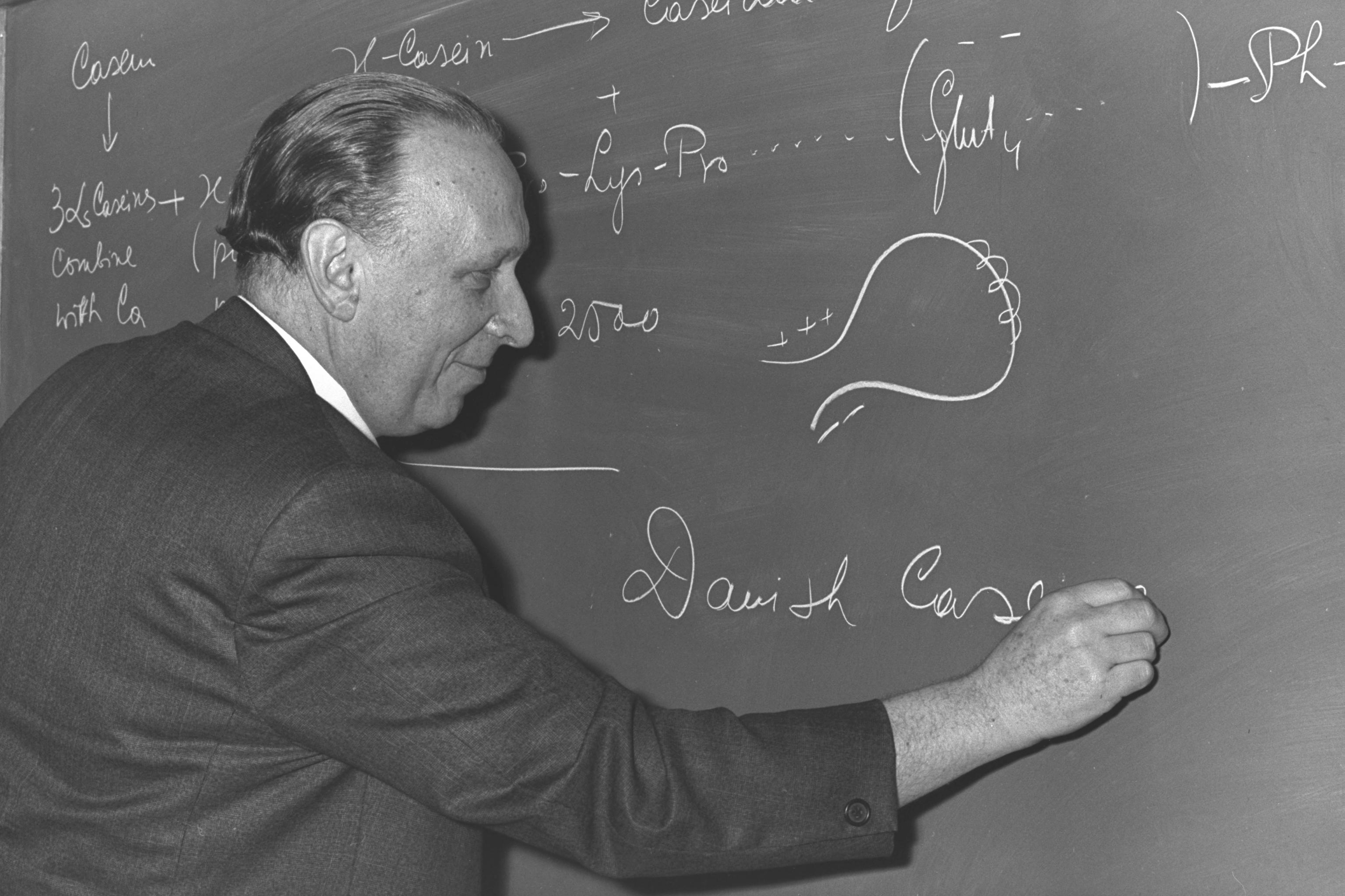 Prof. Aharon Katzir writes down the formula development of the newly discovered immunizing substance Casein. פרופ' אברהם קציר כותב נוסחא של אנזים שהתגלה לאחרונה Photo: Moshe Milner (1946–) Alternative names Miylner, Moše; Milner, Mosheh; Moshé Milner; Milner, M.; Mîlner, Moše; Miylner, MošehDescriptionIsraeli photographerצלם ישראליDate of birth 1946 Location of birth Germany Authority control : Q28750411 VIAF: 100999744 ISNI: 0000 0001 0804 0507 LCCN: n82072104 GND: 115699732 BNF: 15548788n WorldCat creator QS:P170,Q28750411 , 04/01/1969